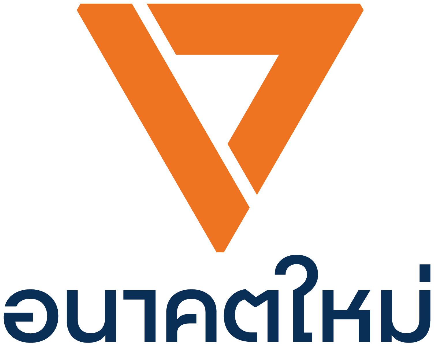 Logo of Future Forward Party (as used from party's convention on 27th May 2018).png